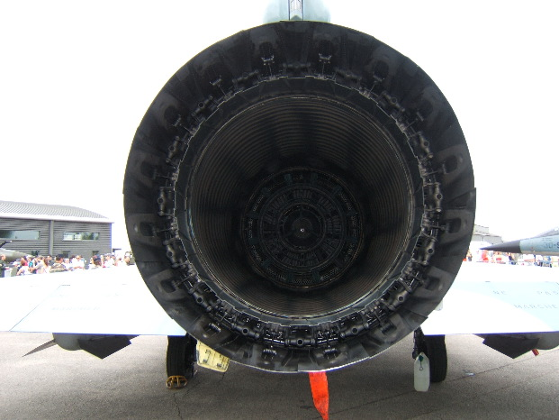 Tuyère d'un Mirage 2000B